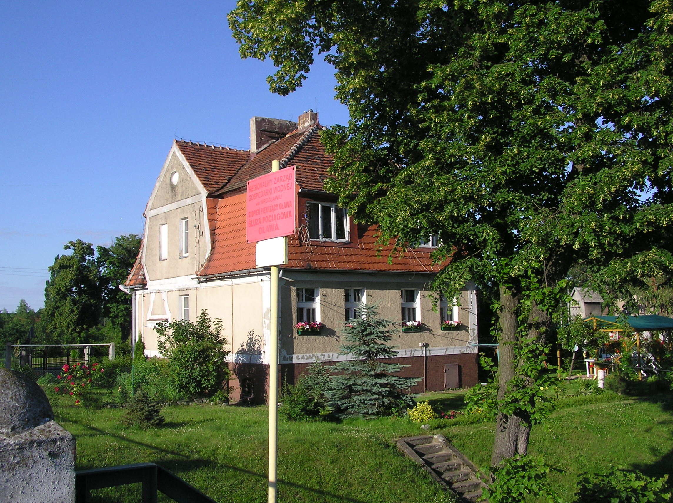 Oława II Lock